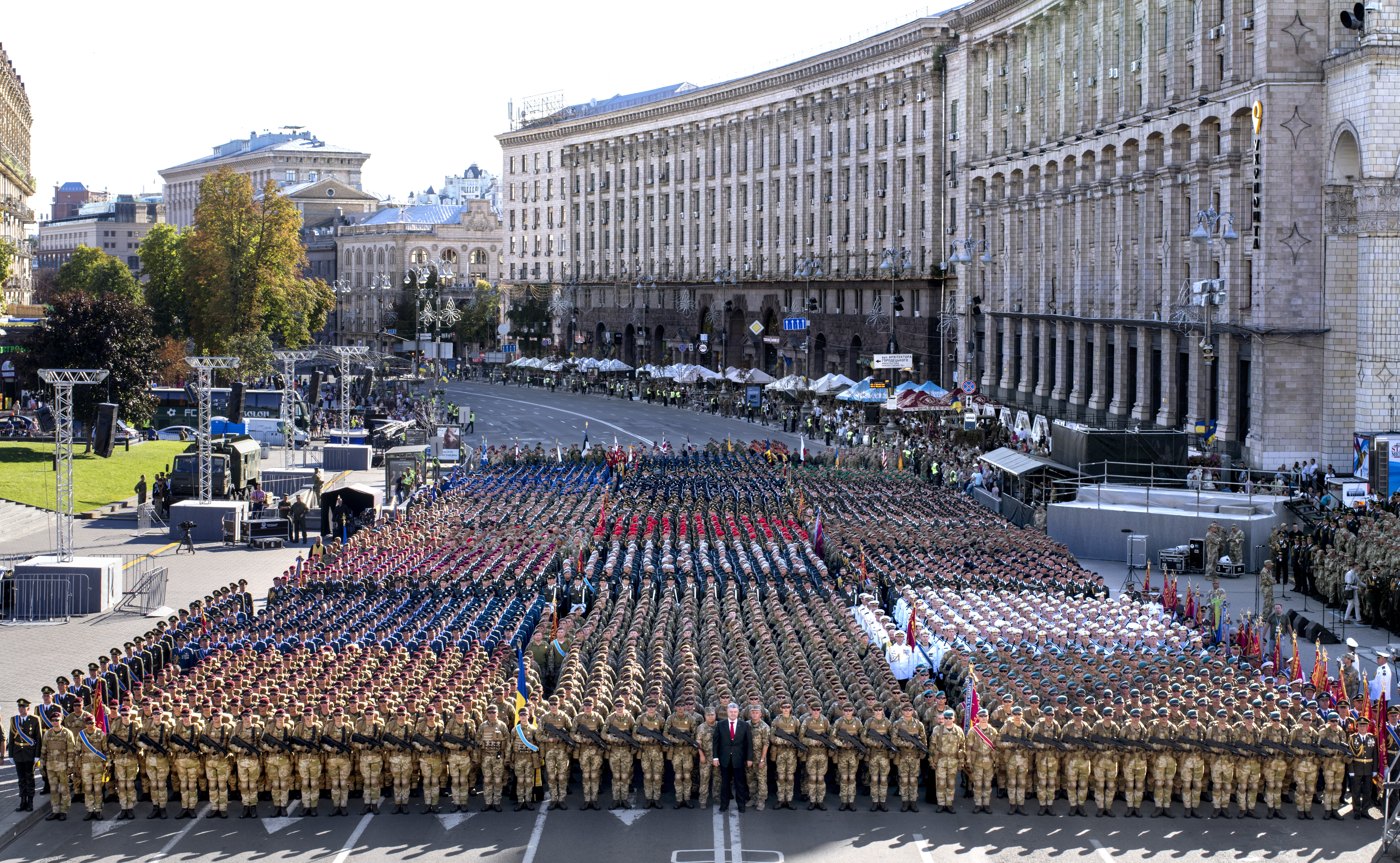 Final rehearsal of the parade. Joint photo with participants of the "Army Parade" on the occasion of the Independence Day of Ukraine